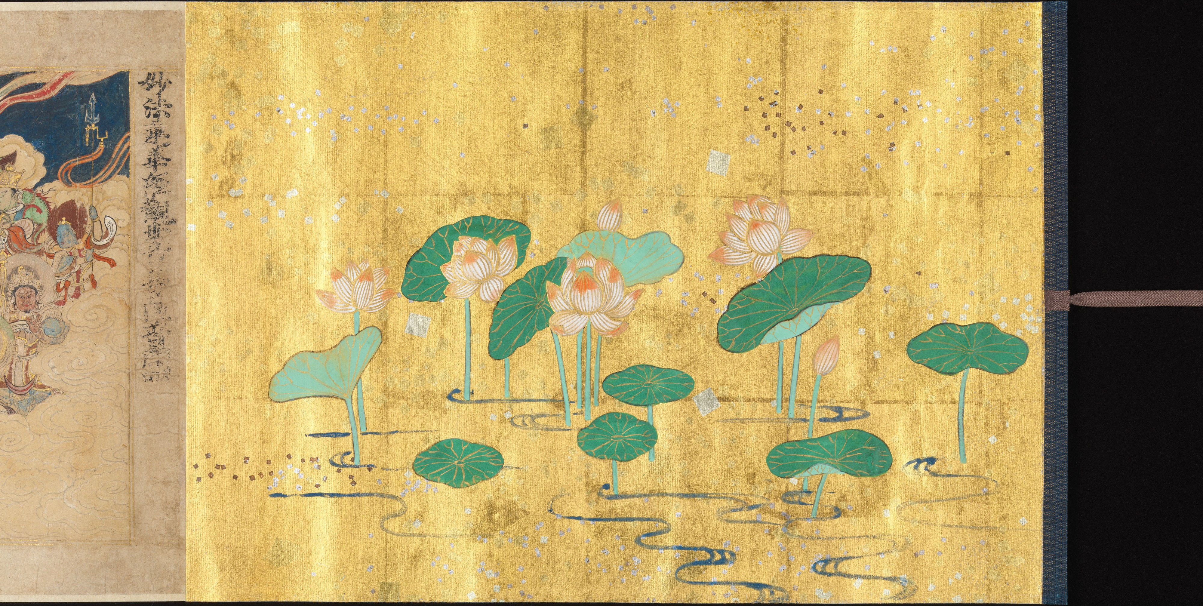 “Universal Gateway”, Chapter 25 of the Lotus Sutra, text inscribed by Sugawara Mitsushige, Kamakura period, dated 1257, handscroll; ink, color, and gold on paper, 9 11/16 x 368 1/16 in. (24.6 x 934.9 cm) with mounting, Metropolitan Museum of Art, accession 53.7.3